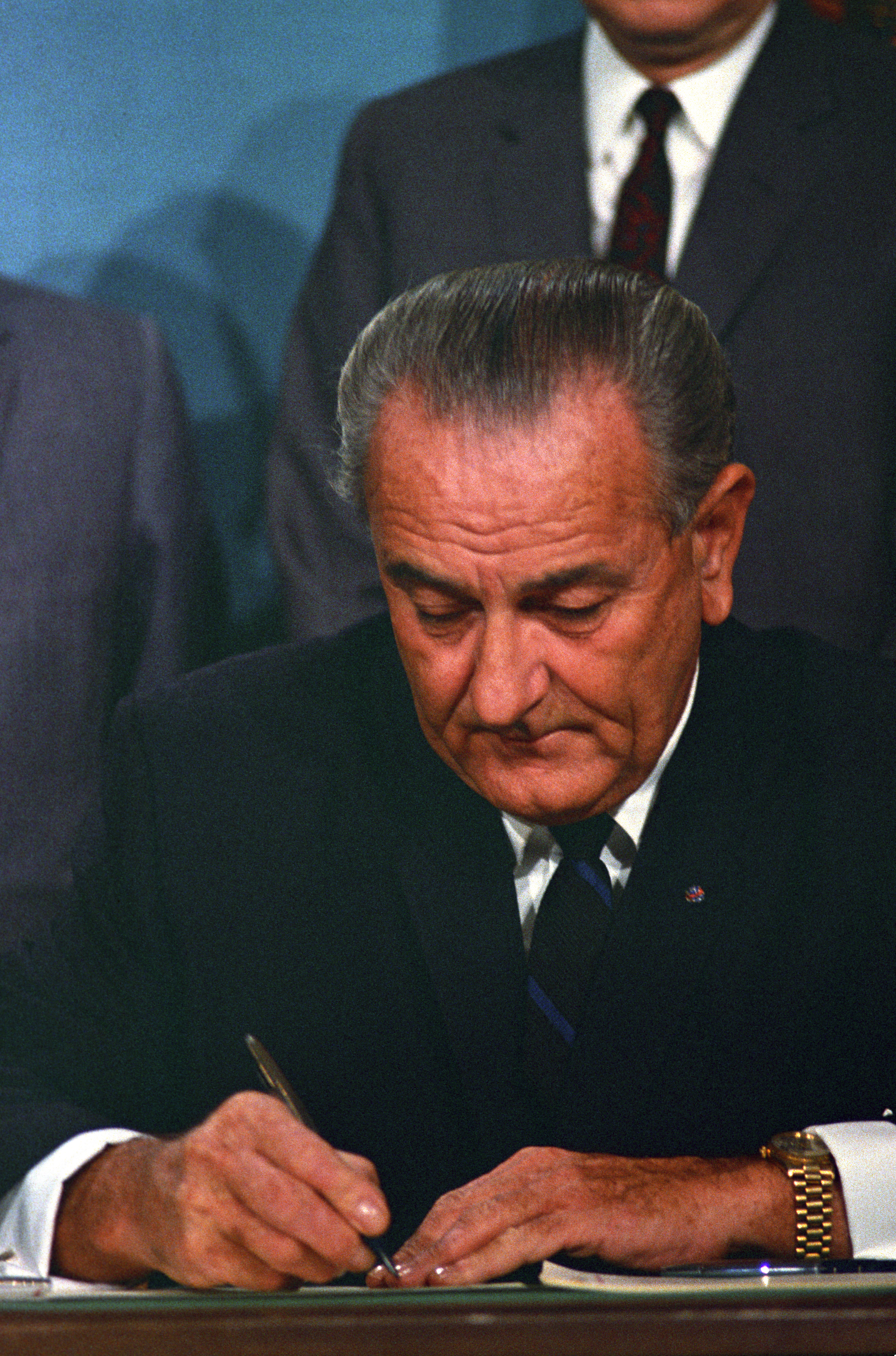 President Lyndon B. Johnson signs the Public Boradcasting Act of 1967